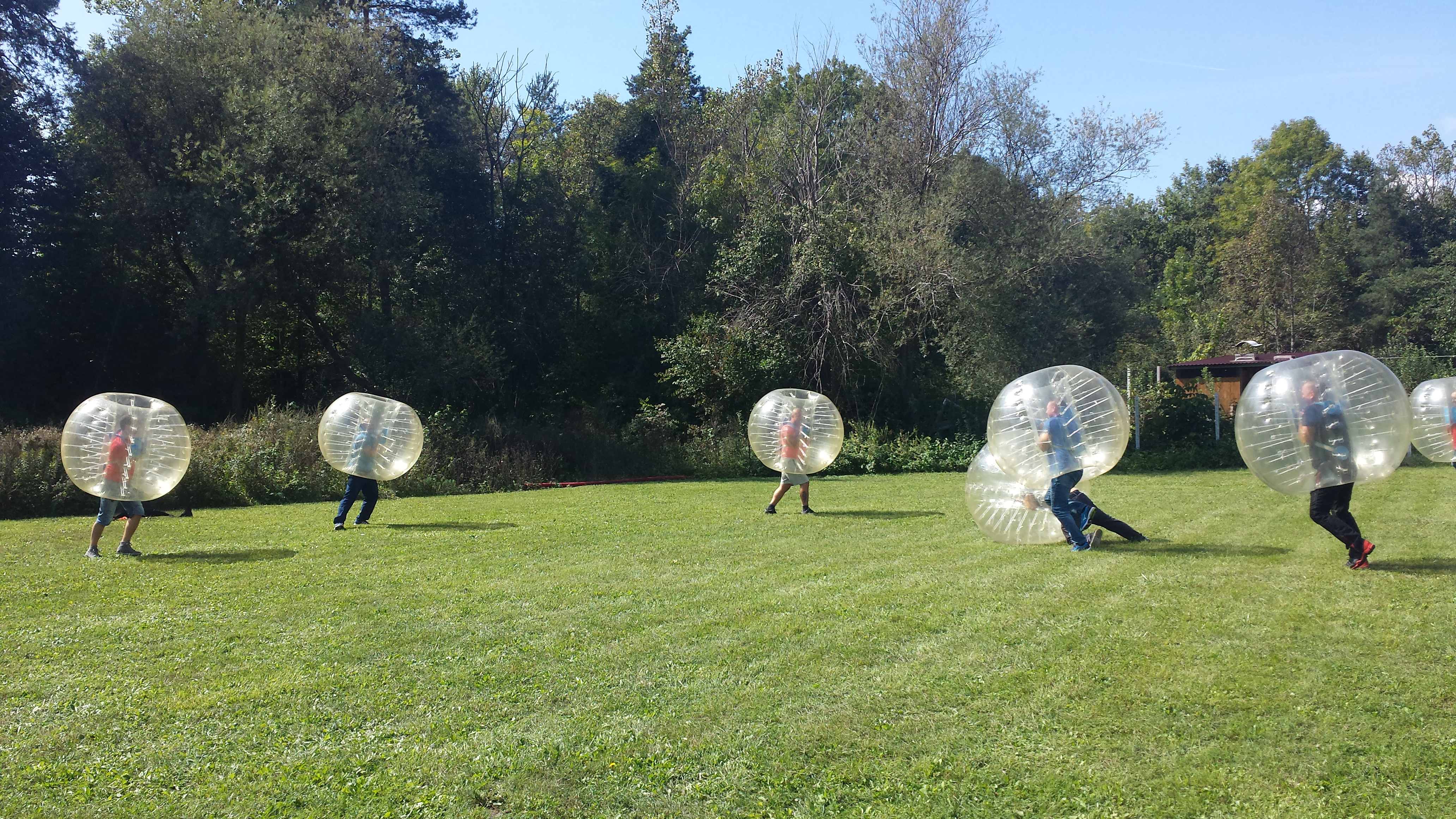 Green Valley Zupanc Plac Šešče pri Preboldu football